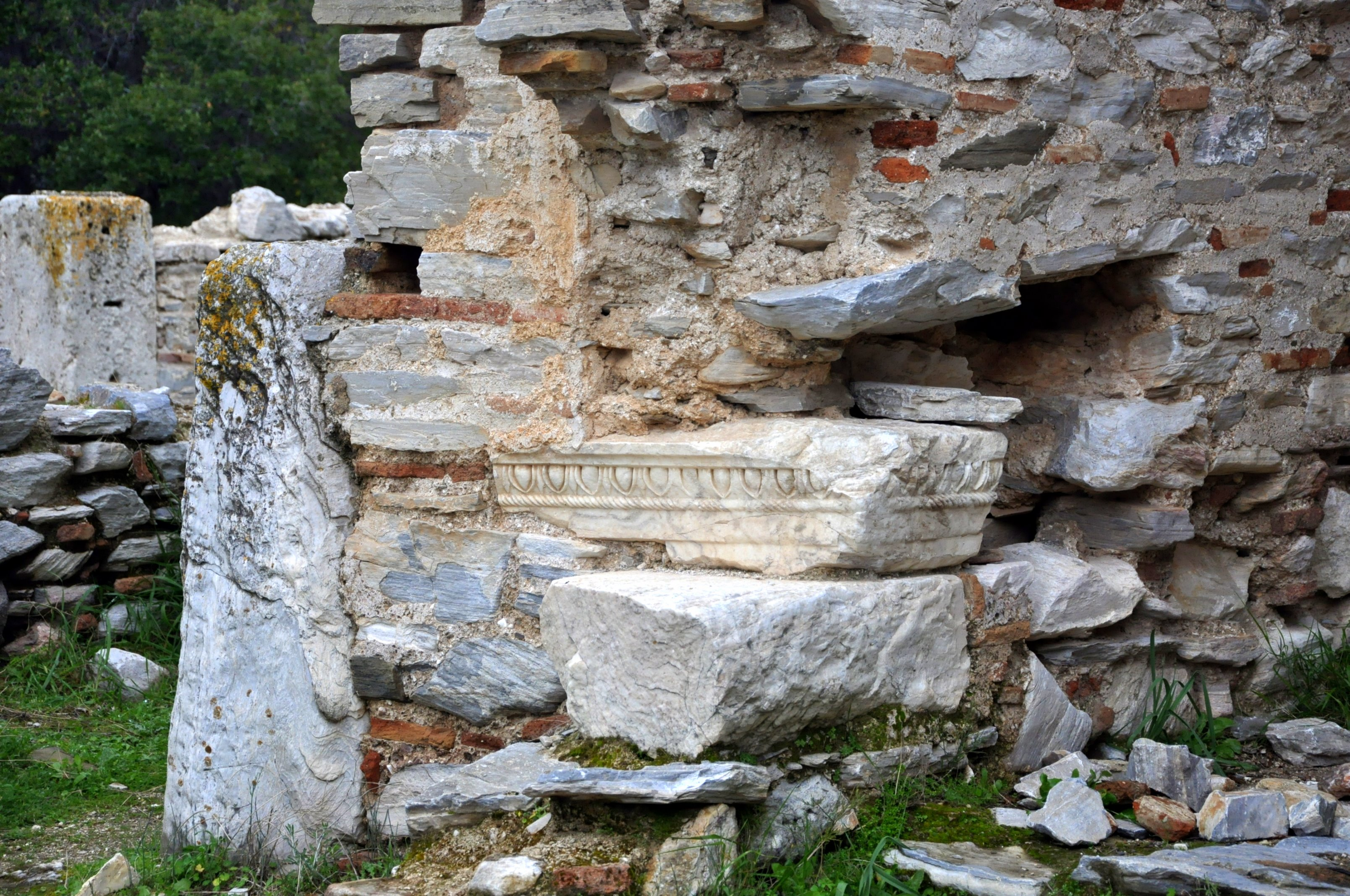 Kaisariani, the hill: HQ elements of an ancient temple, used in the walls of an early christian basilica